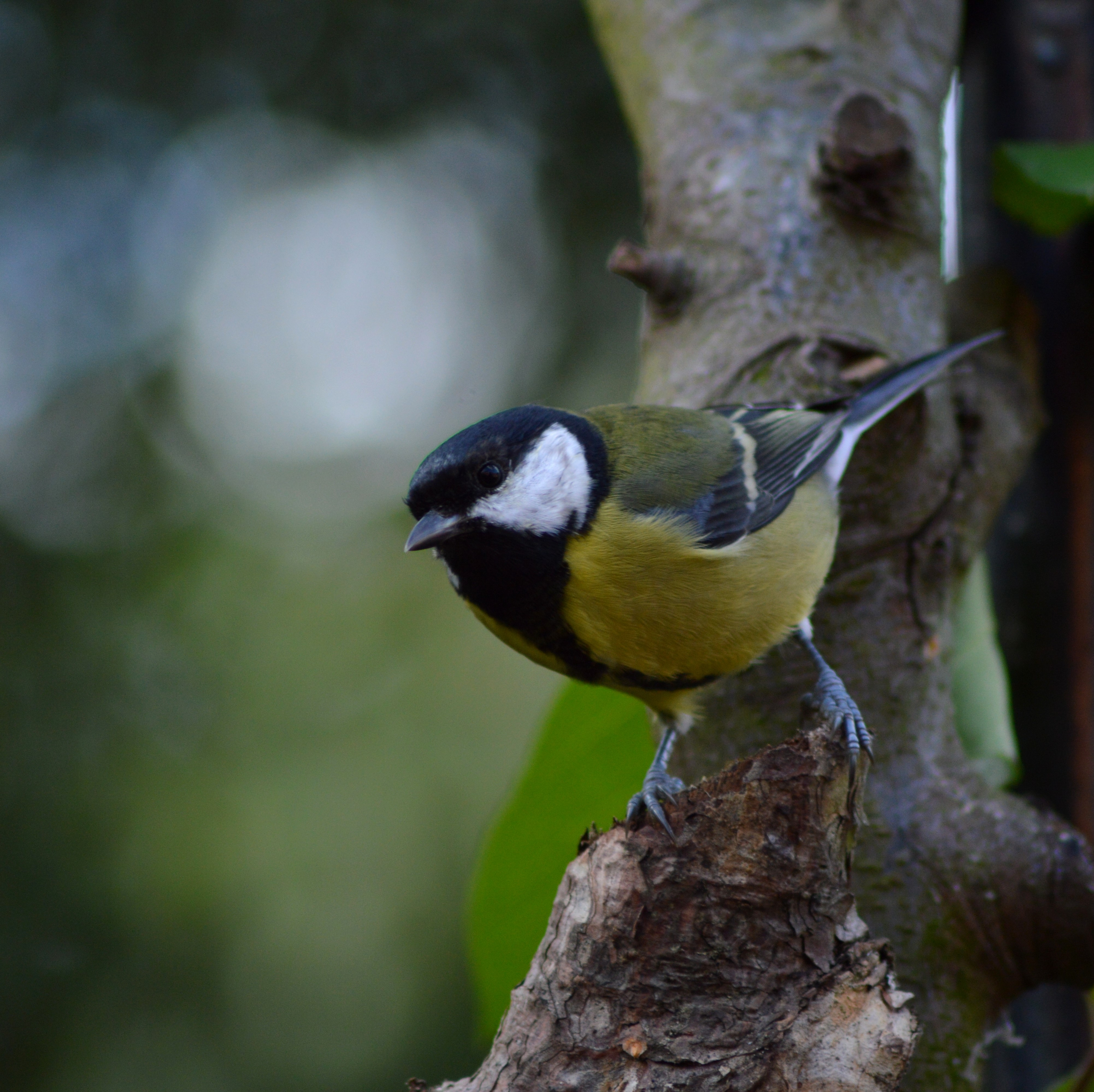 Taken in the garden, I am on quest to transform my garden into my private little nature reserve, if theres any tips on how to shoot wildlife in the garden and how to attract any animals like Marsh Tit to Wood mice!! Any advice is welcome!! There are two people who have already helped me here, - Dundee18 - graham_brownlow The largest UK tit - green and yellow with a striking glossy black head with white cheeks and a distinctive two-syllable song. It is a woodland bird which has readily adapted to man-made habitats to become a familiar garden visitor. It can be quite aggressive at a birdtable, fighting off smaller tits. In winter it joins with blue tits and others to form roaming flocks which scour gardens and countryside for food. Status: Green UK breeding: 2,074,000 territories